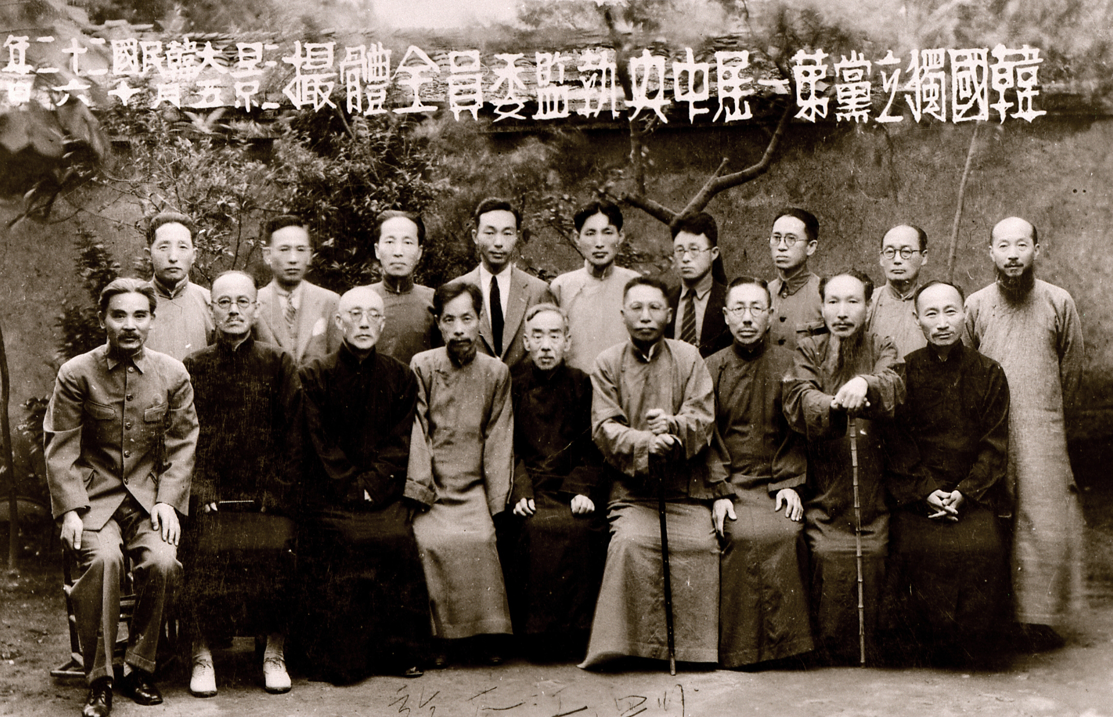 PGRK(Provisional Government of the Republic of Korea) members